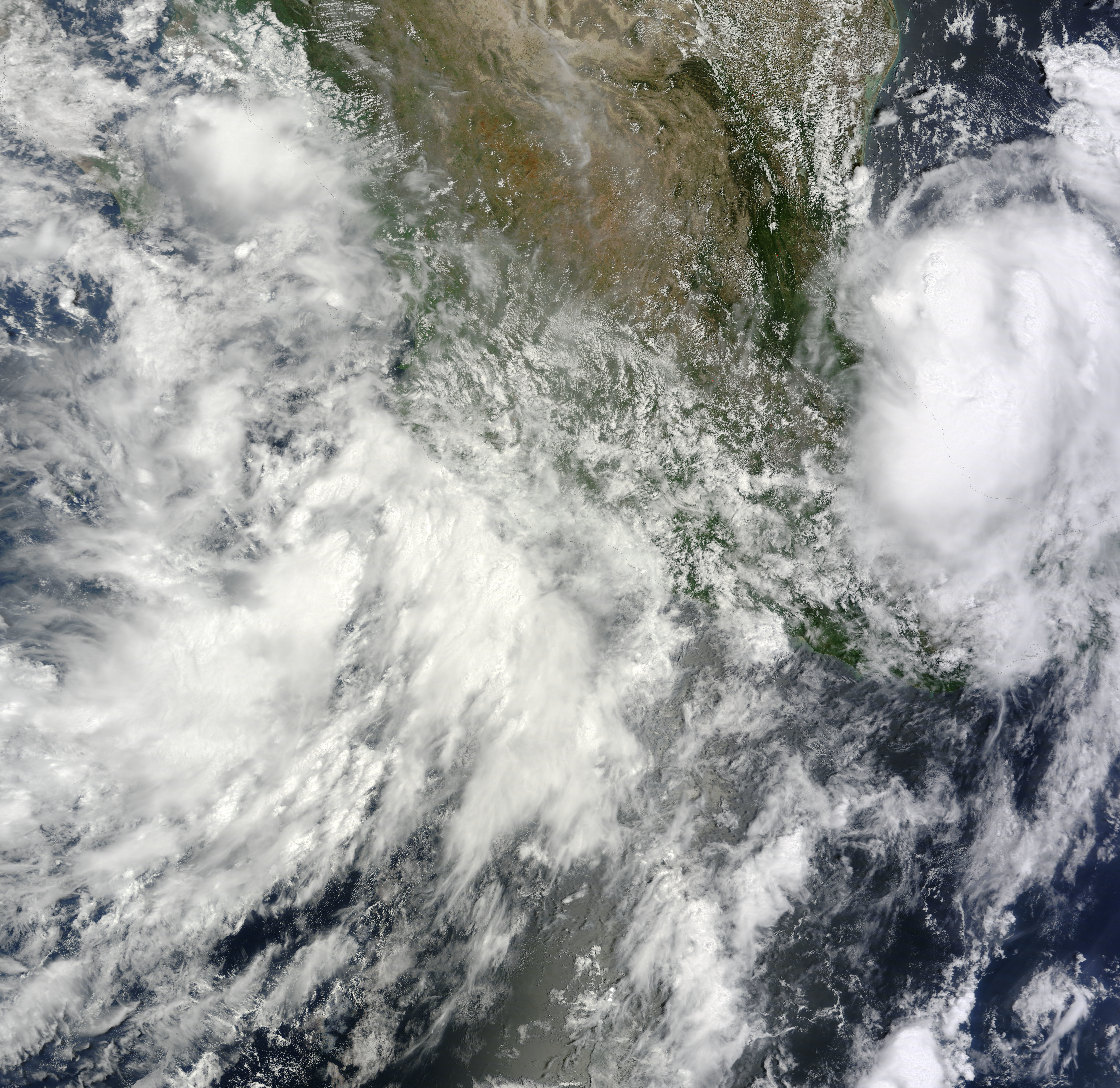 Mexico between Tropical Storms Dolly (05L) and Norbert (14E)